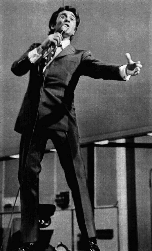 singer Gilbert Bécaud guest of the Italian show Sai che ti dico, Rome, 1972